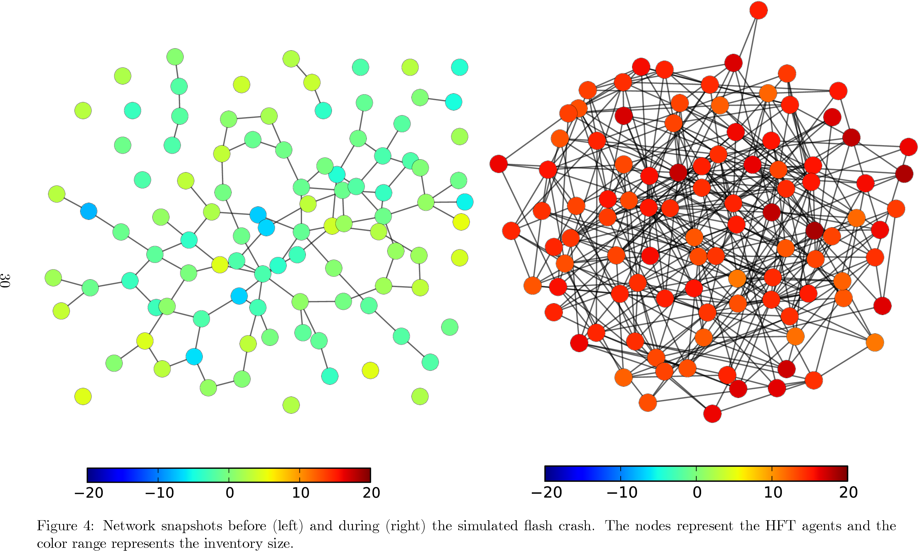 Network snapshots before (left) and during (right) the simulated flash crash. The nodes represent the HFT agents and the color range represent the inventory size.